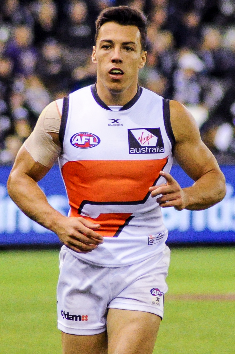 Dylan Shiel during the AFL round twelve match between Carlton and Greater Western Sydney on 11 June 2017 at Etihad Stadium in Melbourne, Victoria.